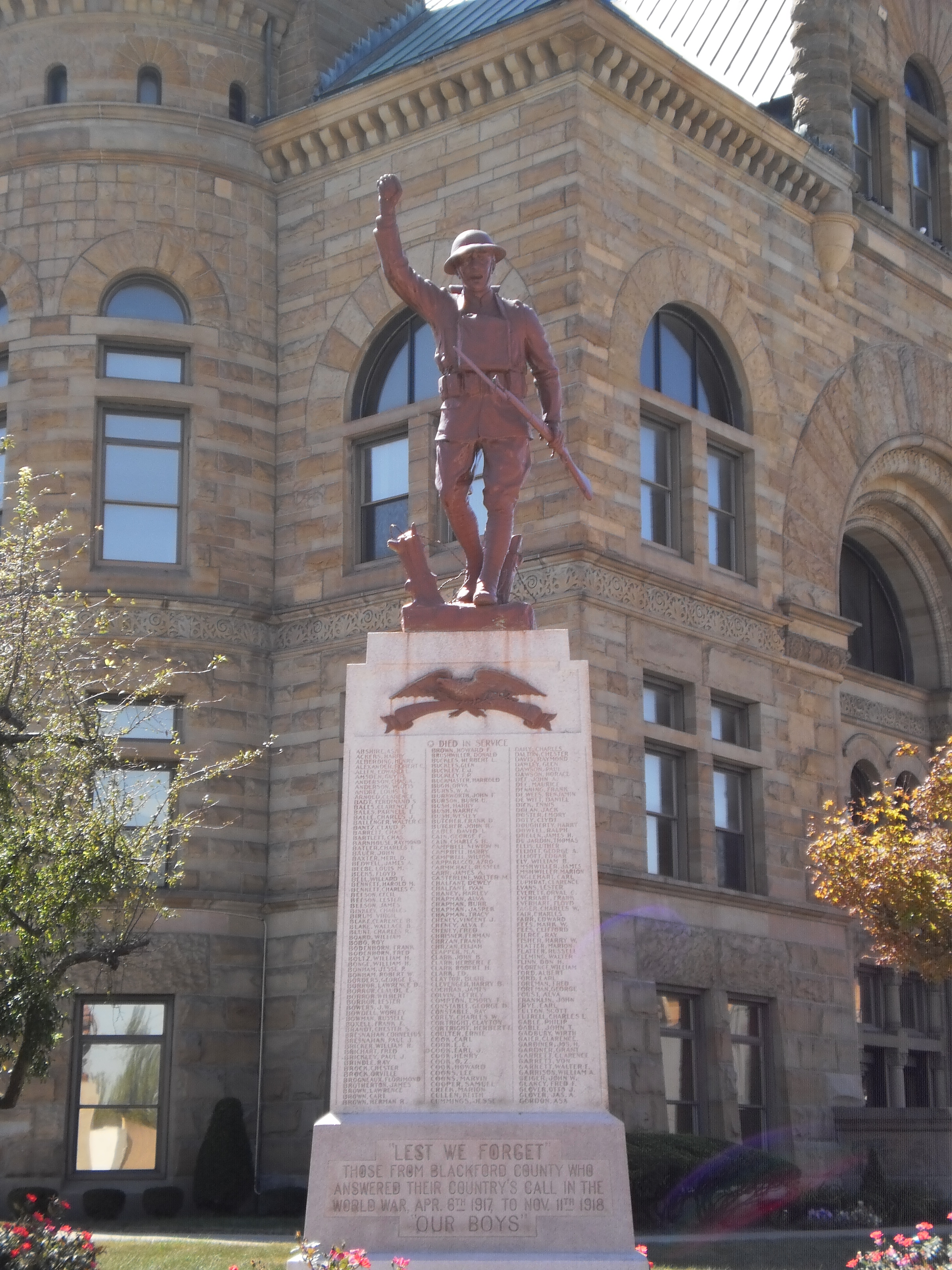 This World War I monument is part of the Hartford City Courthouse Square Historic District in Hartford City, Indiana, USA. It is located on the NE corner of Hartford City's Blackford County courthouse. The statue is known as the Spirit of the American Doughboy. It was unveiled on the northeast corner of the courthouse square on September 28, 1921.